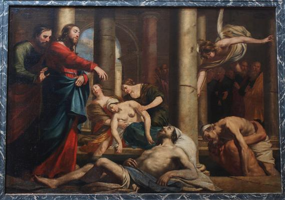 Christ at the Probatic Pool